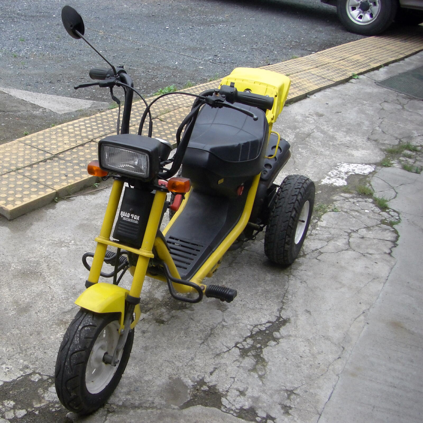 Honda_RoadFox